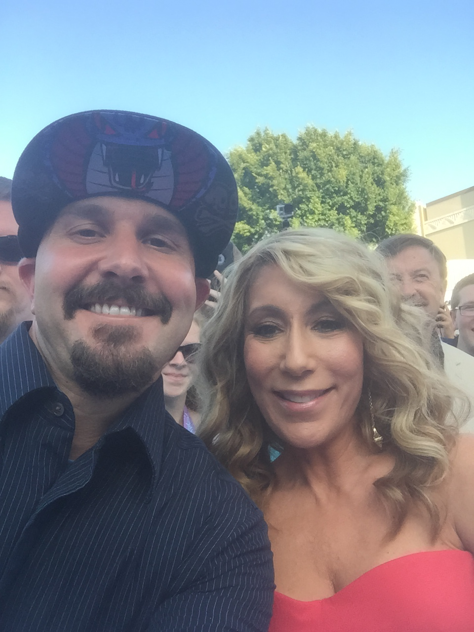 Jeremy Yablan and Lori Greiner at Tomorrowland Premiere